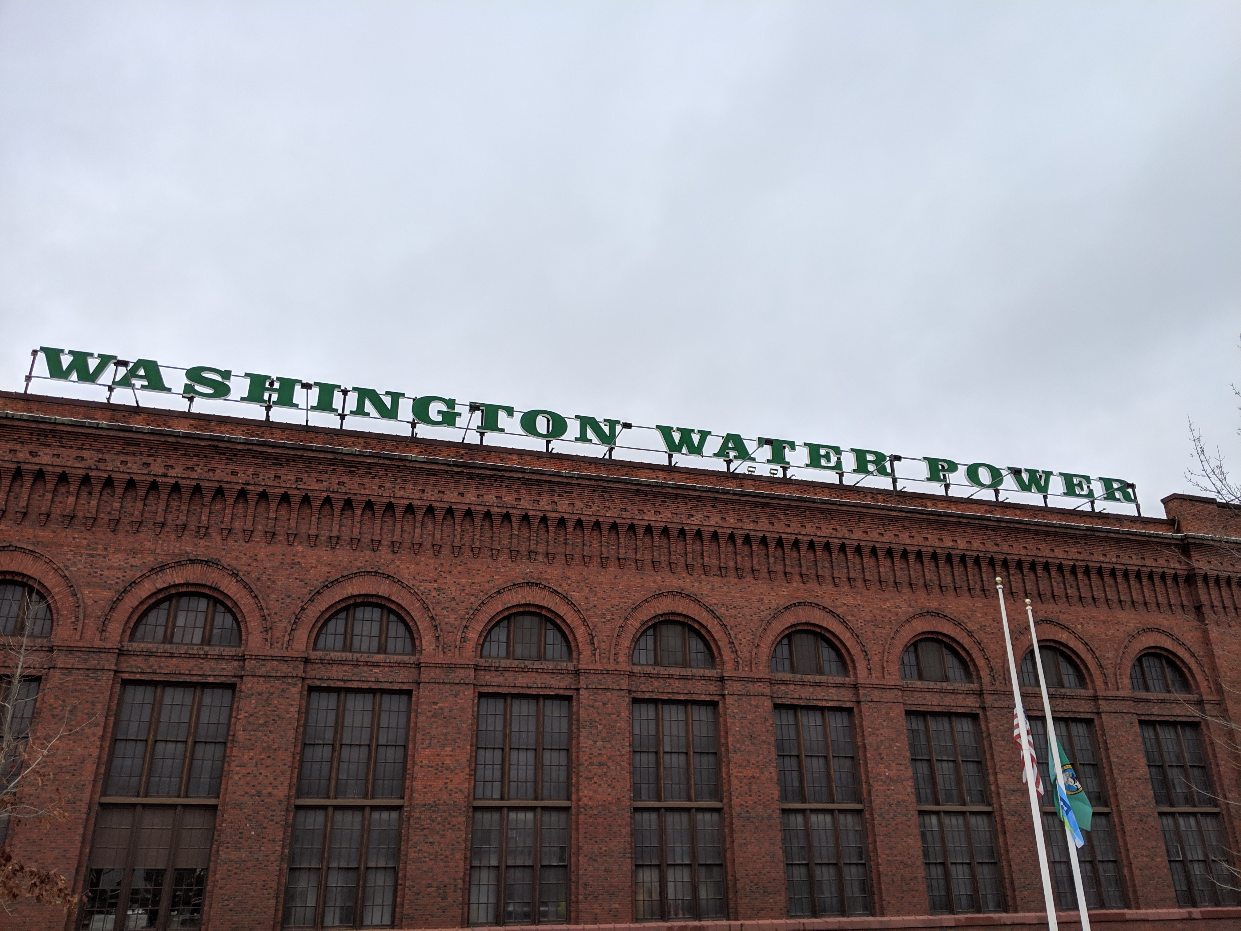 A view of the last remaining sign to bear the name of the Washington Water Power company, now known as Avista. The all-capitalized green lettering appears on both sides of the building.